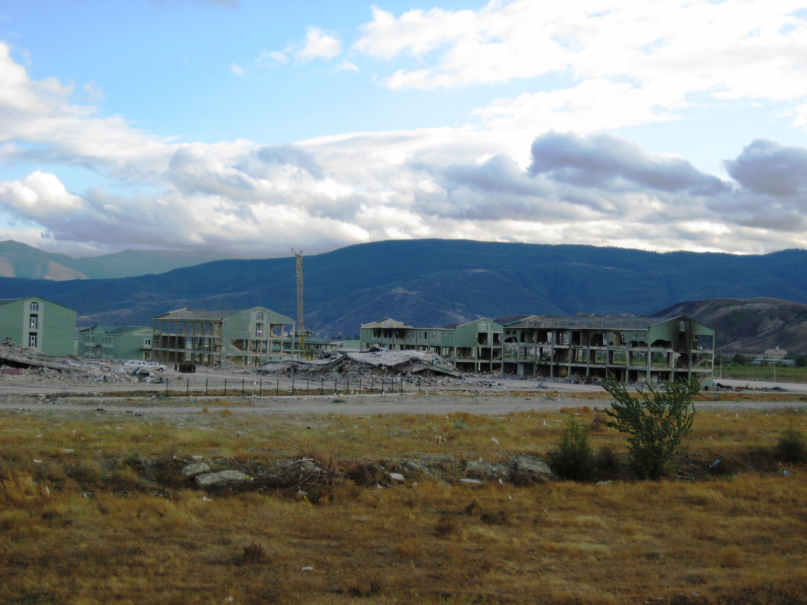 Russian assaults in August resulted in the destruction of Gori military bases, only few building survived.